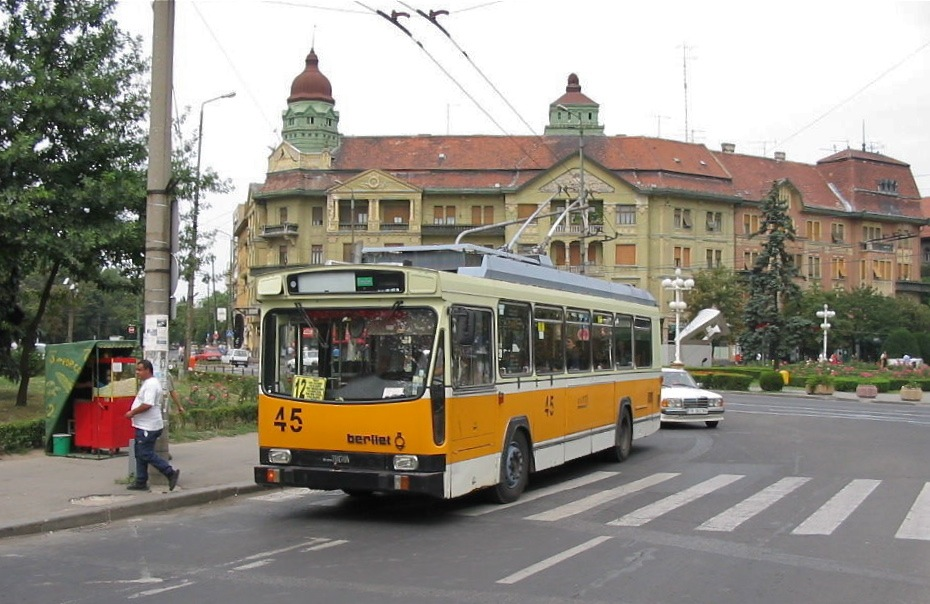 Timişoara trolleybus 45, a 1978 Berliet ER100R, was ex-Lyon 2924, acquired secondhand in 1999. It is shown in service on former route 12, wearing yellow-and-cream Timişoara livery. It was retired/withdrawn in Timişoara in 2007 or 2008.